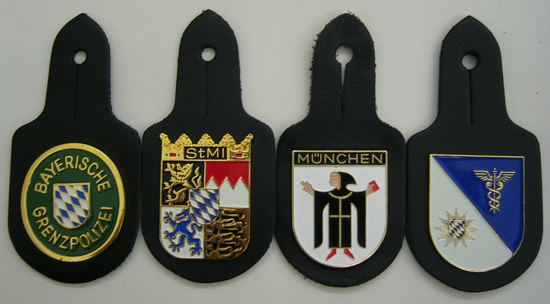 Insignia of Bavarian Police organisations as worn on uniforms